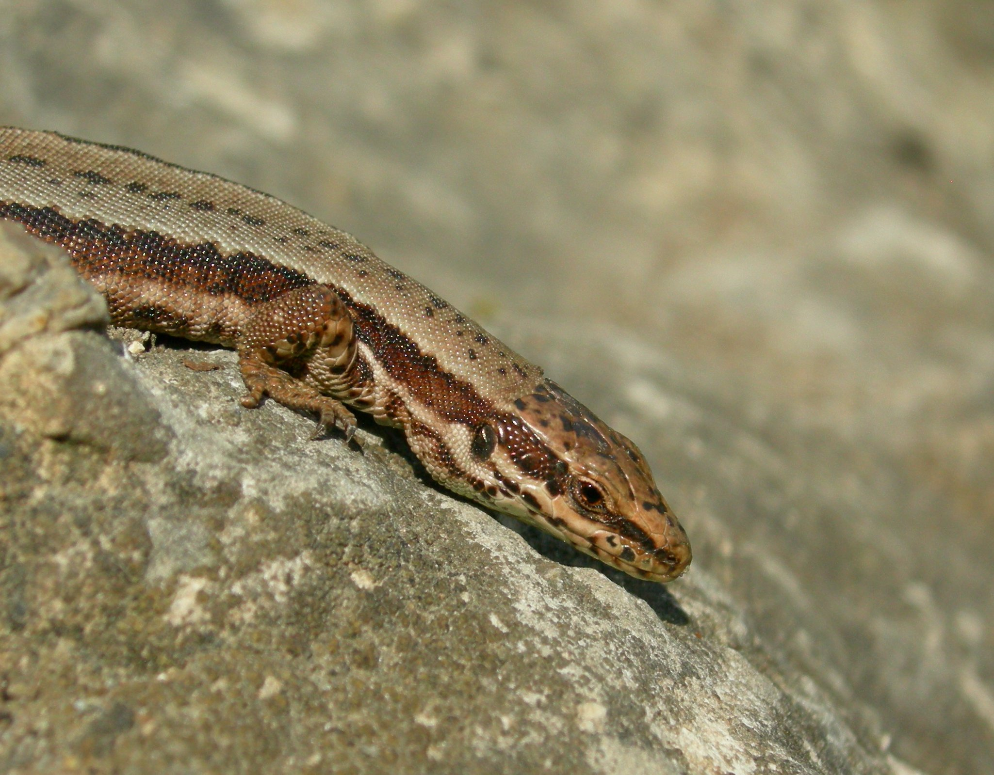 Podarcis muralis (near river Sava Bohinjka, Slovenia)